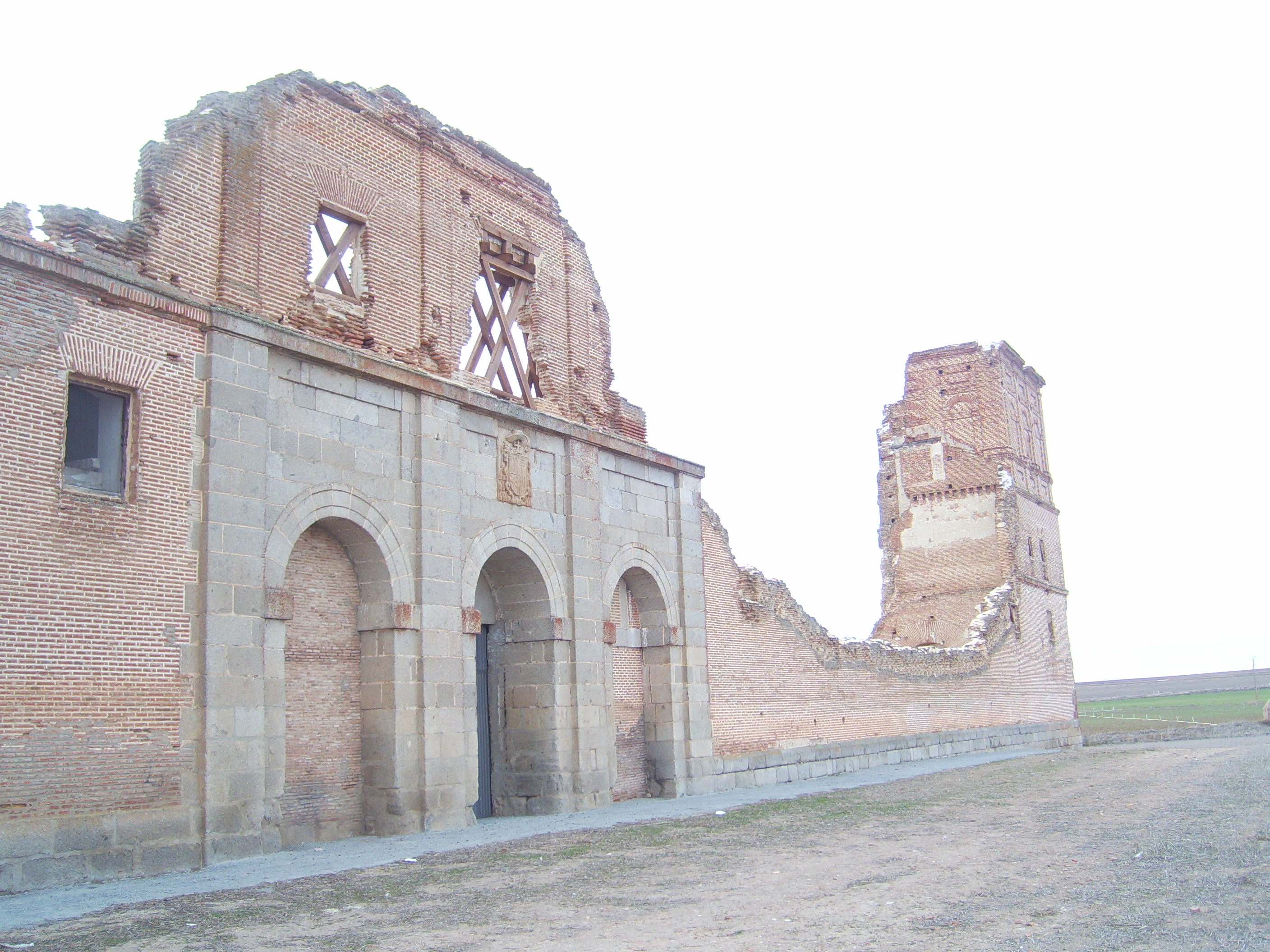 san agustín convent´s ruins